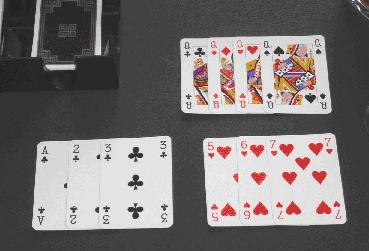 A completed game of Gin Rummy, showing 3 melds with no deadwood, as well as a glass and bottle of Gin to the right.